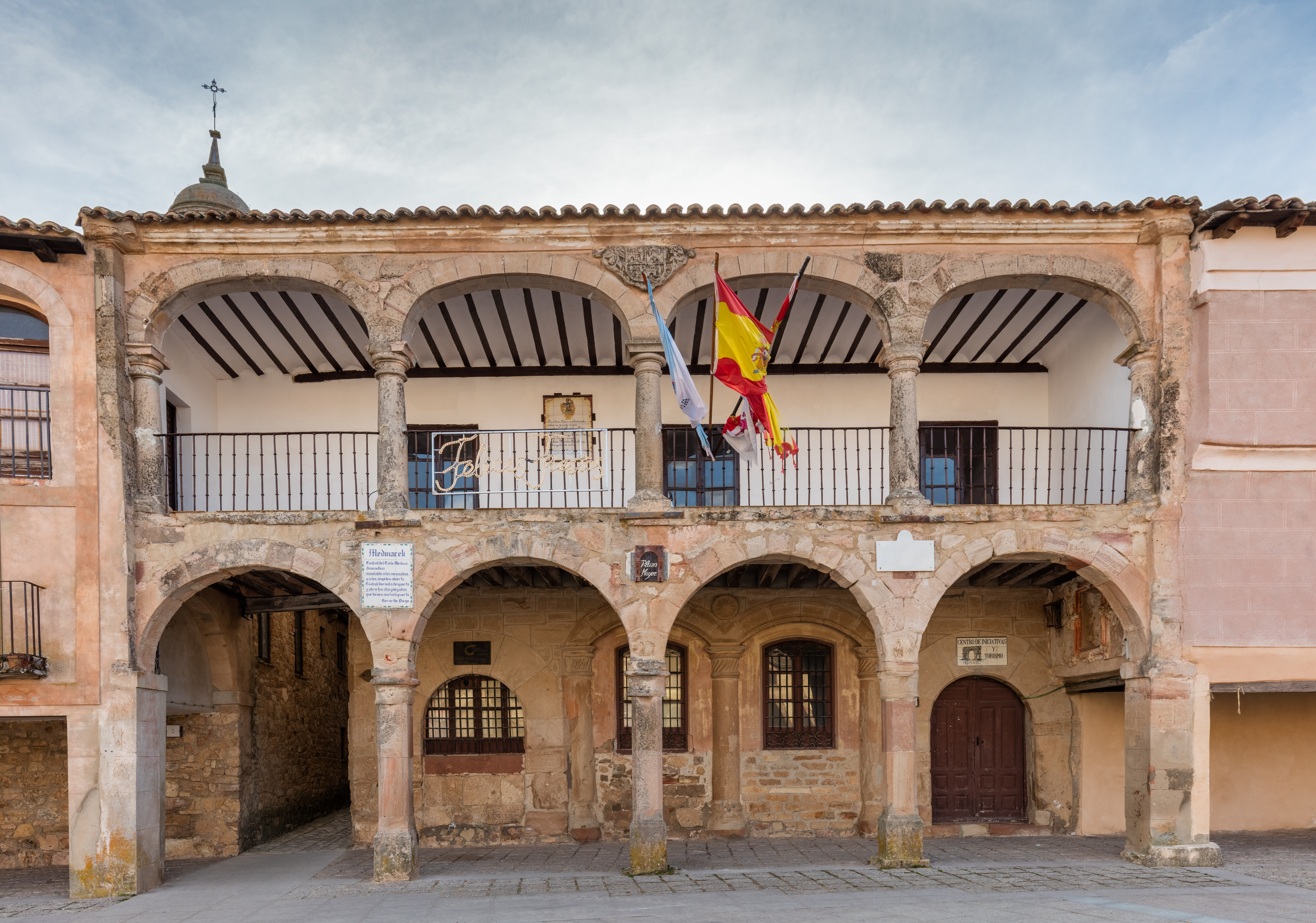 Tourism office, Main square of Medinaceli, Soria, Spain